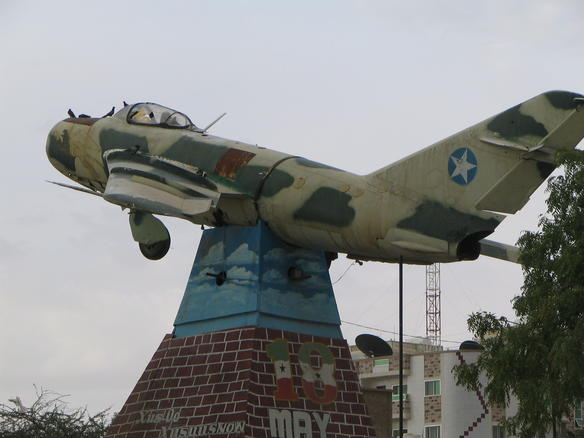 Memorial for the 1988 bombings in form of a MiG in Hargeysa, Somalia. Probably soviet airplane MiG-17